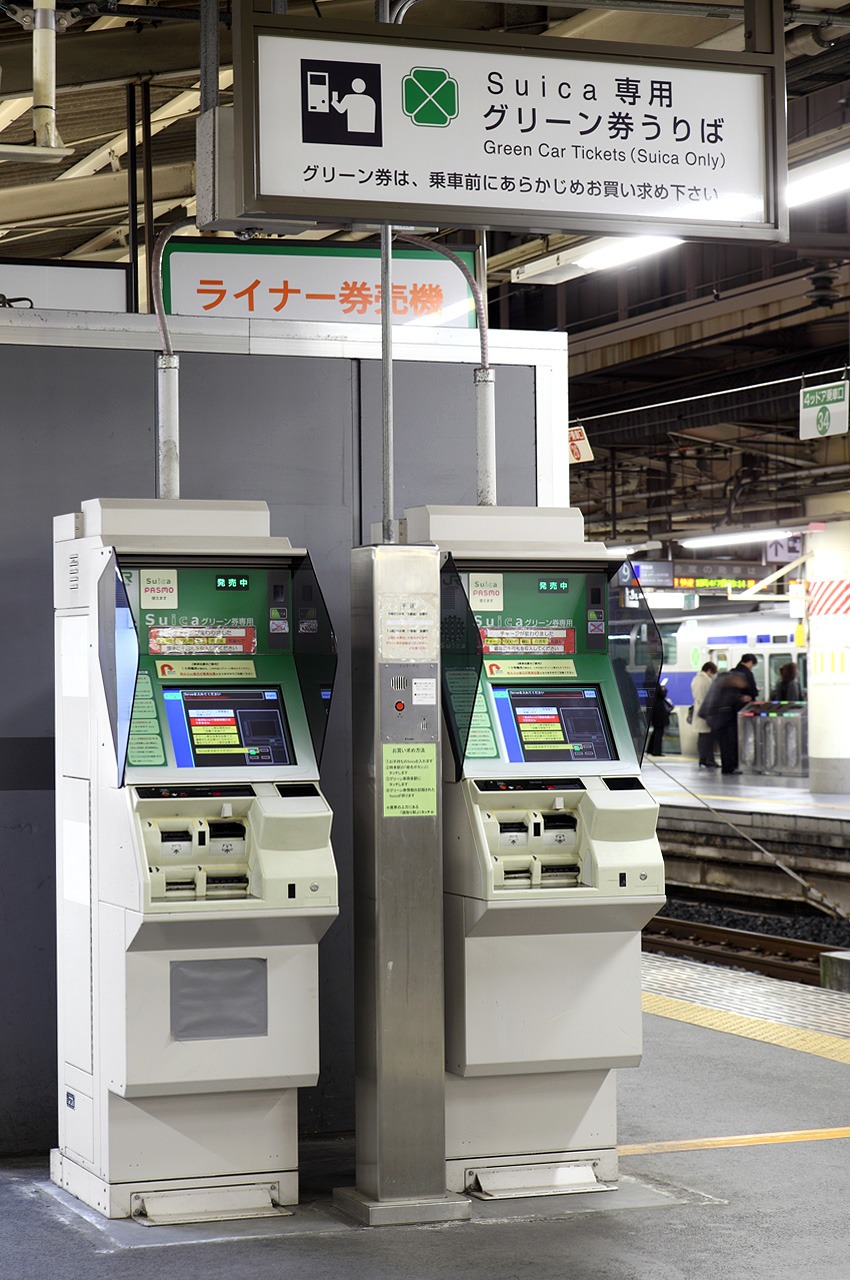 Ticket vending machines for The Green Car Tickets on the platform of Ueno Station. The payment of these are Suica or PASMO only.